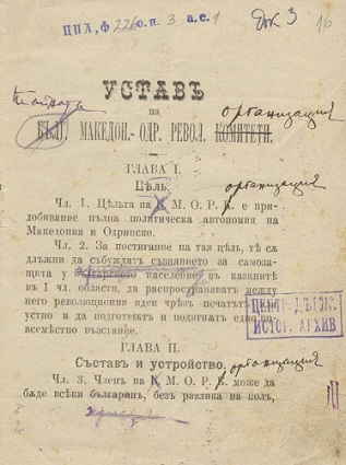 Draft of the statute of the Internal Macedonian-Adrianople Revolutionary Organization made by hand on the original of the former statute \that of the Bulgarian Macedonian-Adrianople Revolutionary Organization\ personally by Gotse Delchev